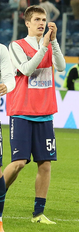 Nikita Kakkoyev after the game between FC Zenit St. Petersburg and FC Dynamo Moscow.